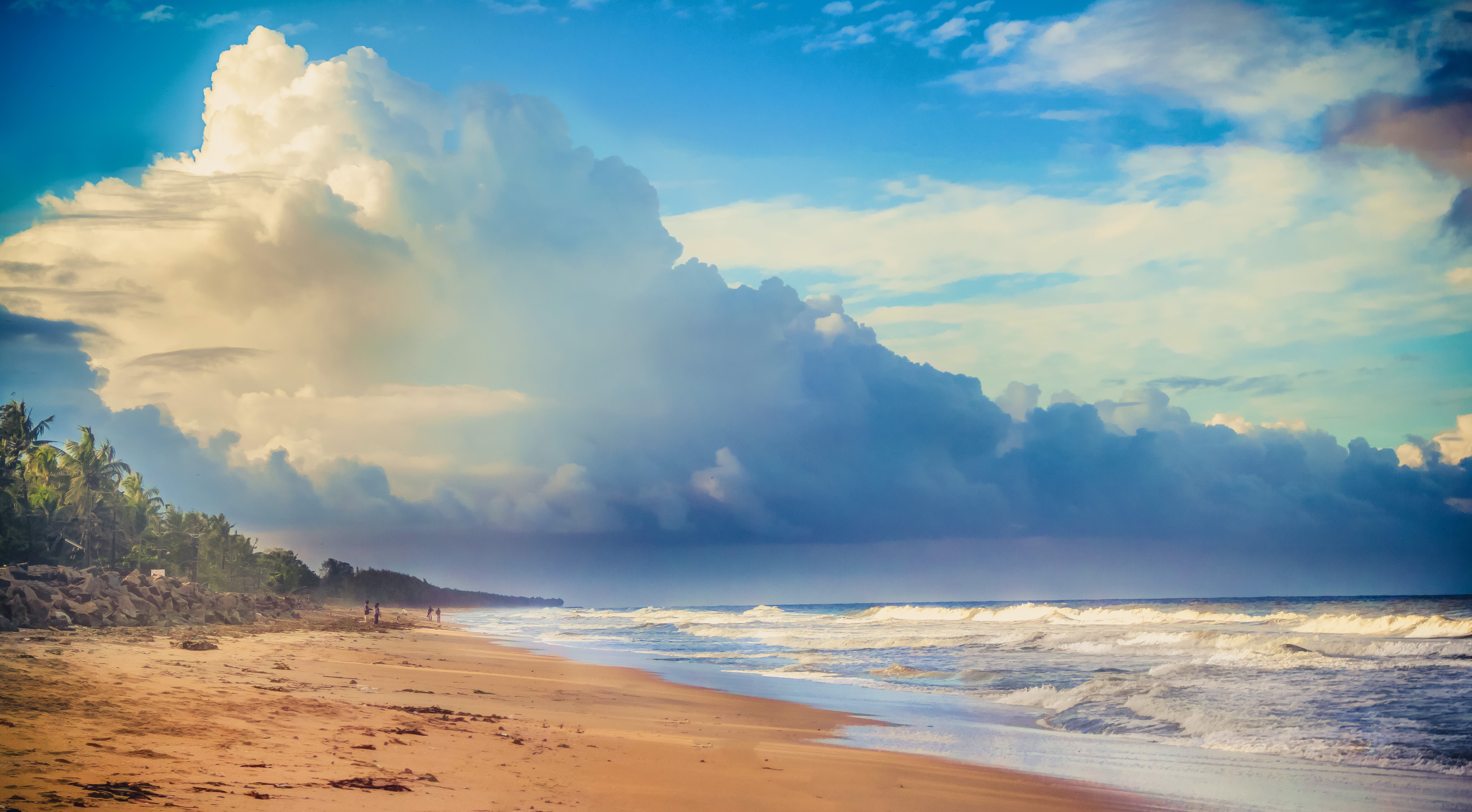 The cloud factory and wavepool